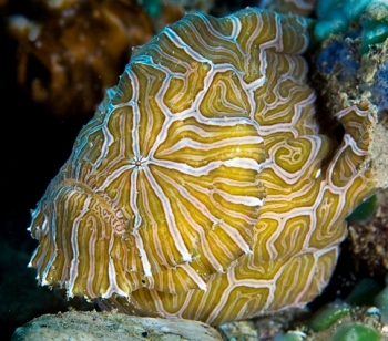 Psychedelic frogfish (Histiophryne psychedelica). For a higher resolution, contact David Hall at [1]. This version has been flipped over the vertical axis.